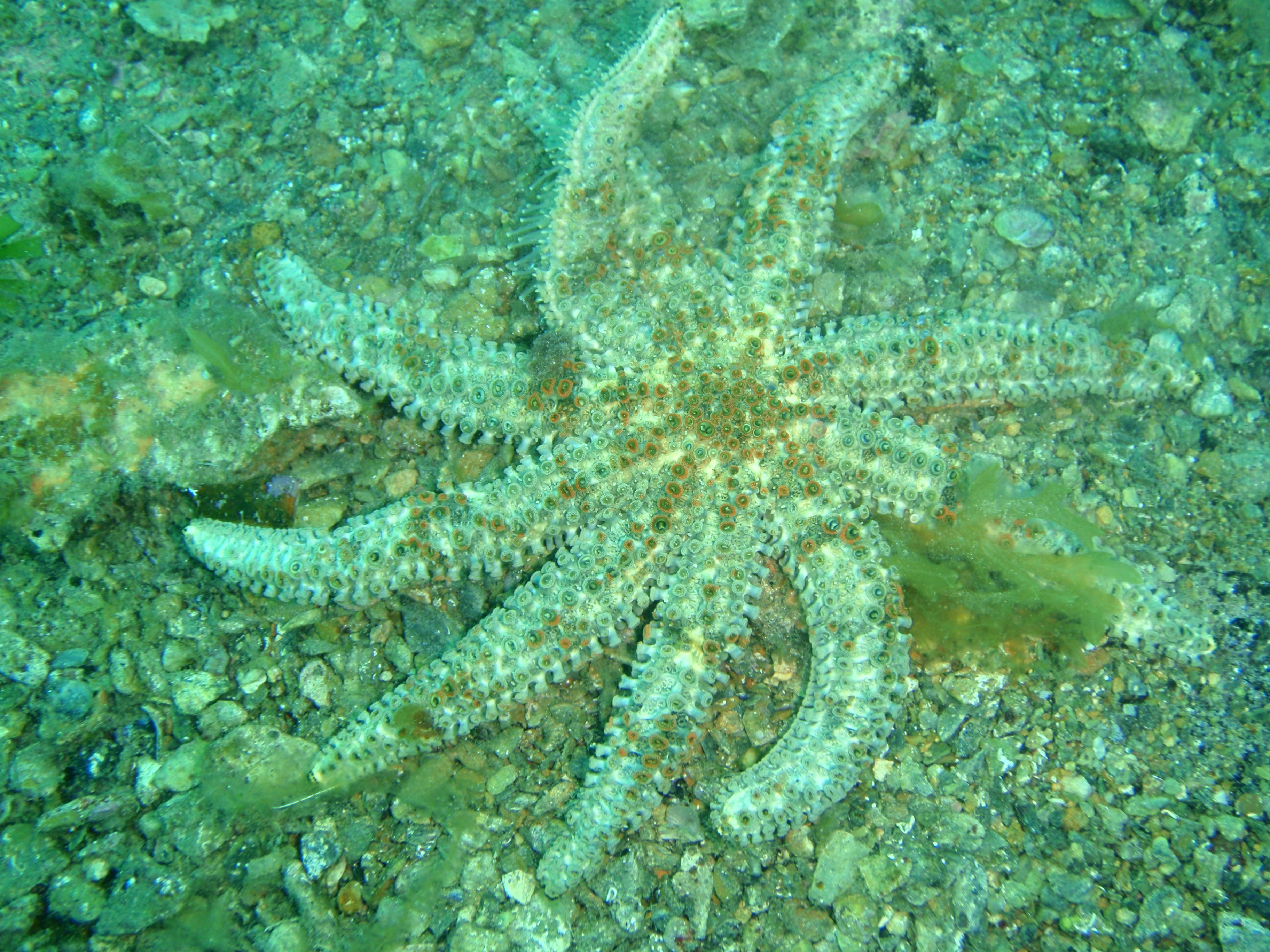 Eleven armed starfish Coscinasterias muricata at Rapid Bay Jetty, Gulf St Vincent, South Australia